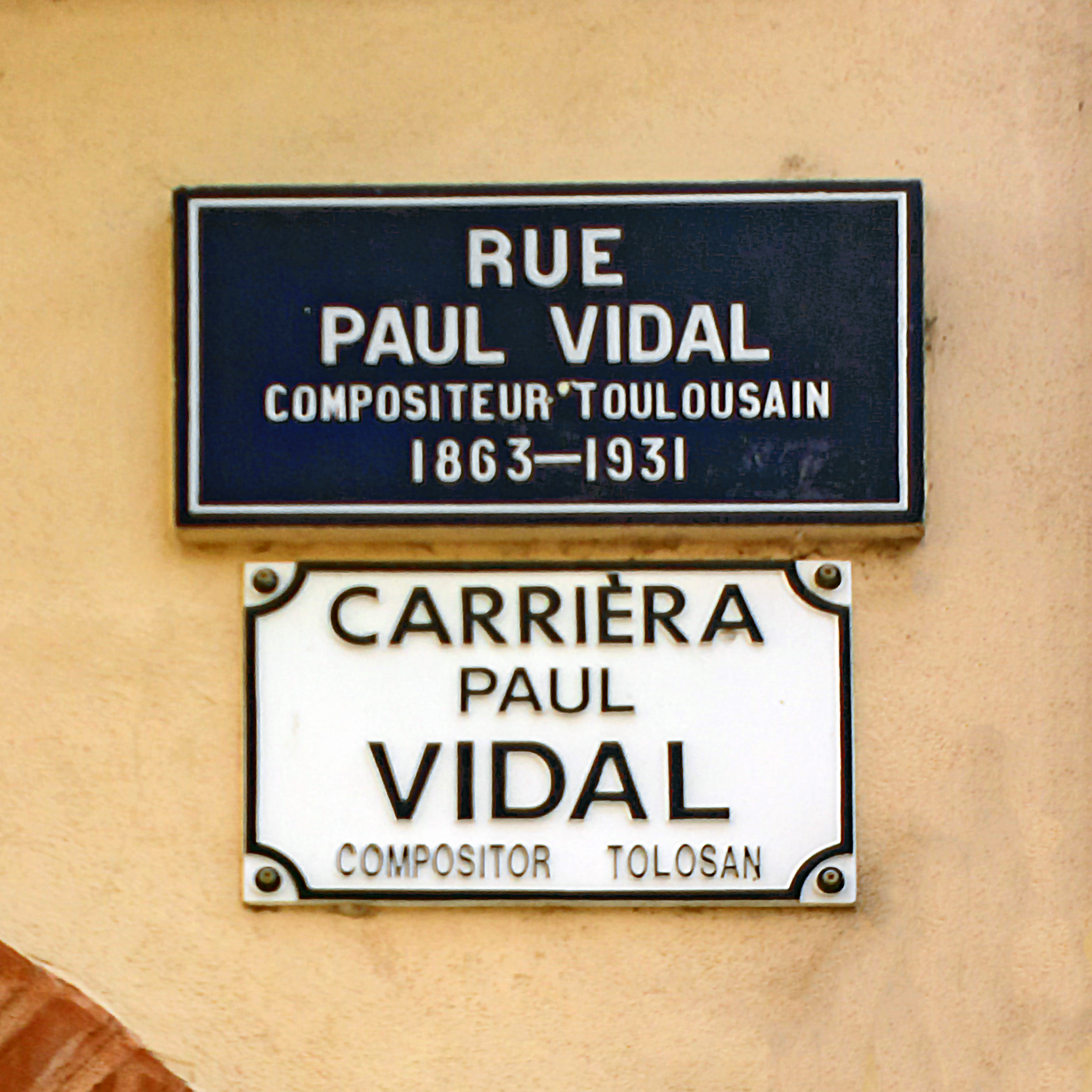 Street name sign in Toulouse. They have the particularity of being: in French and Occitan. Rue Paul-Vidal.